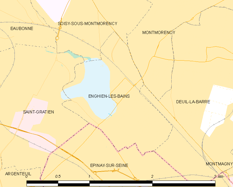 Map of French municipality Enghien-les-Bains